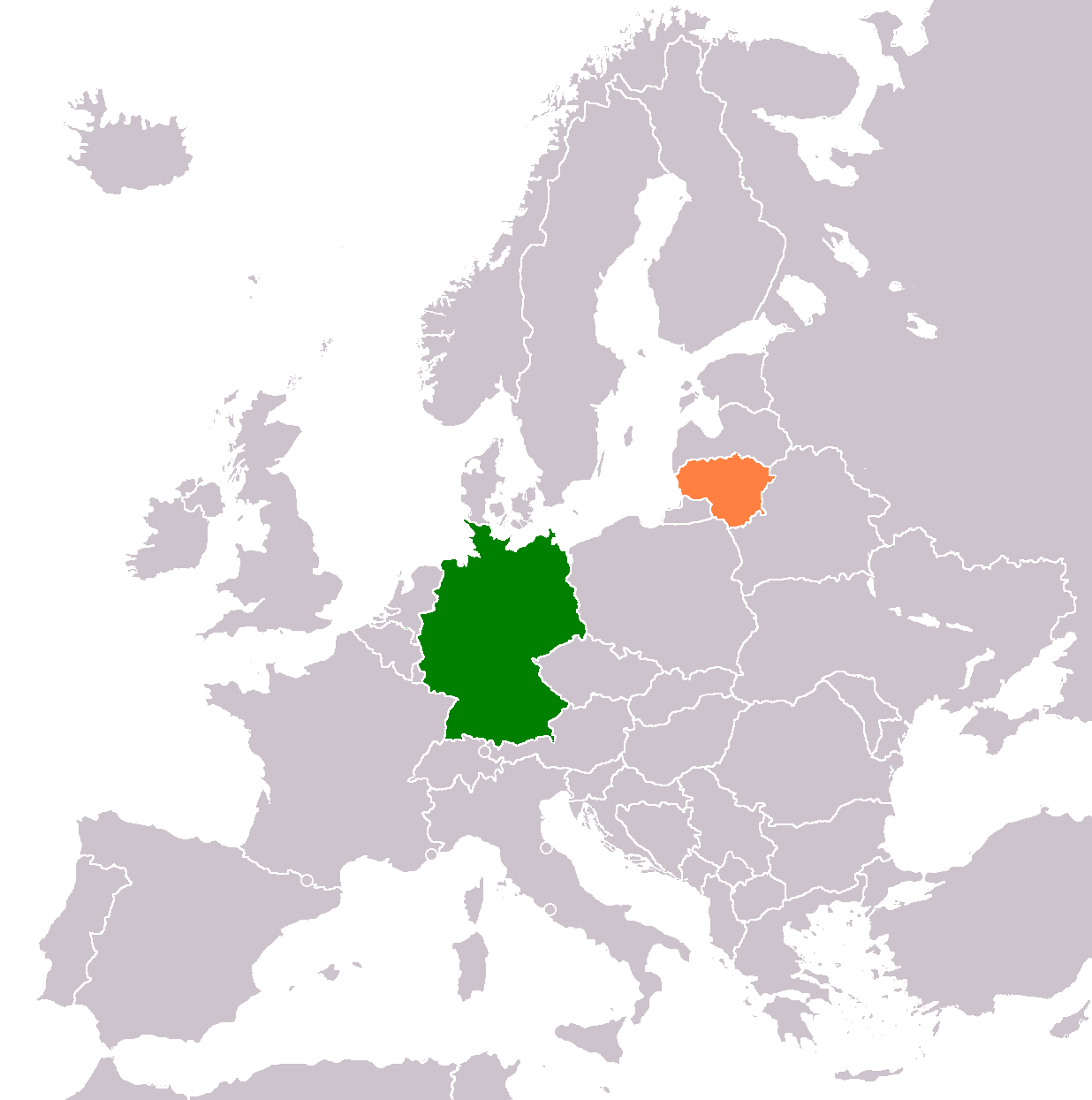 Germany-Lithuania locator map.